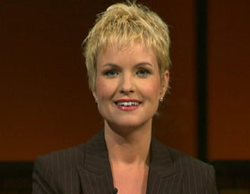 German news anchor carola ferstl